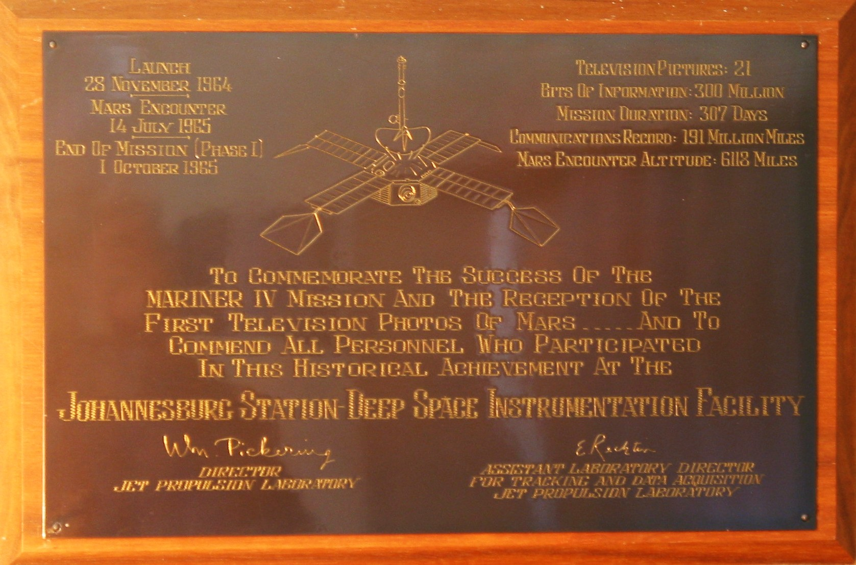 The Mariner IV plaque in the foyer of the Control Building commemorates the first pictures from a spacecraft at Mars.